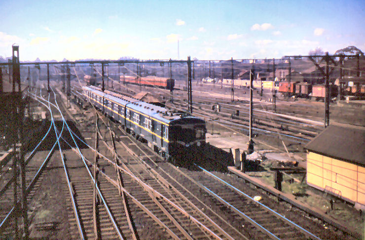 Better,bigger image, new scan. bootload says: Victorian Railways (VR) Harris in VR colours. Note the Tate (Red Rattler) in the 12 O'clock position.